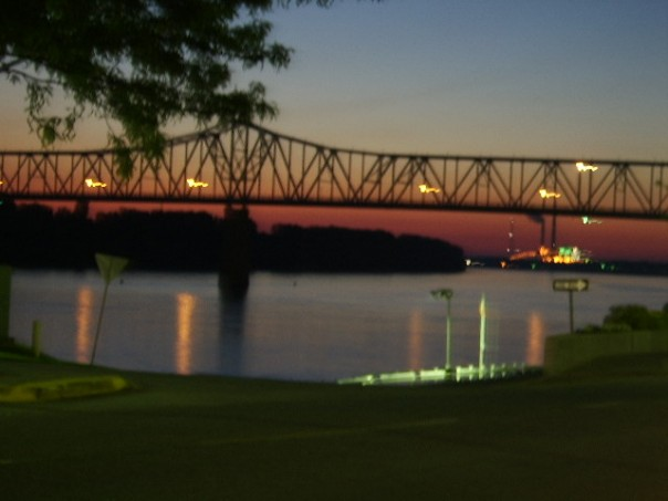 Samantha Grooms